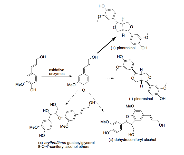 Dirigent protein increases the selectivity of the coupling of coniferyl alcohol radicals.